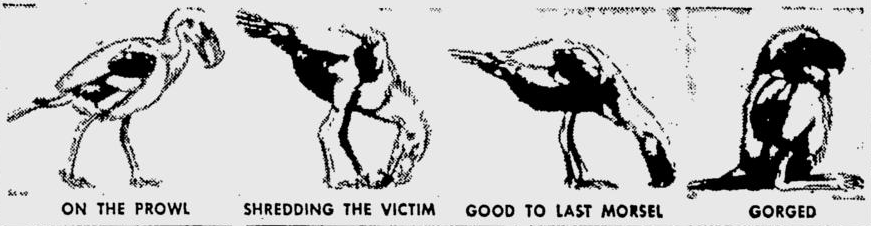 scetches of the terror bird Mesembriornis made by Leon L. Pray of the Chicago Field Museum.